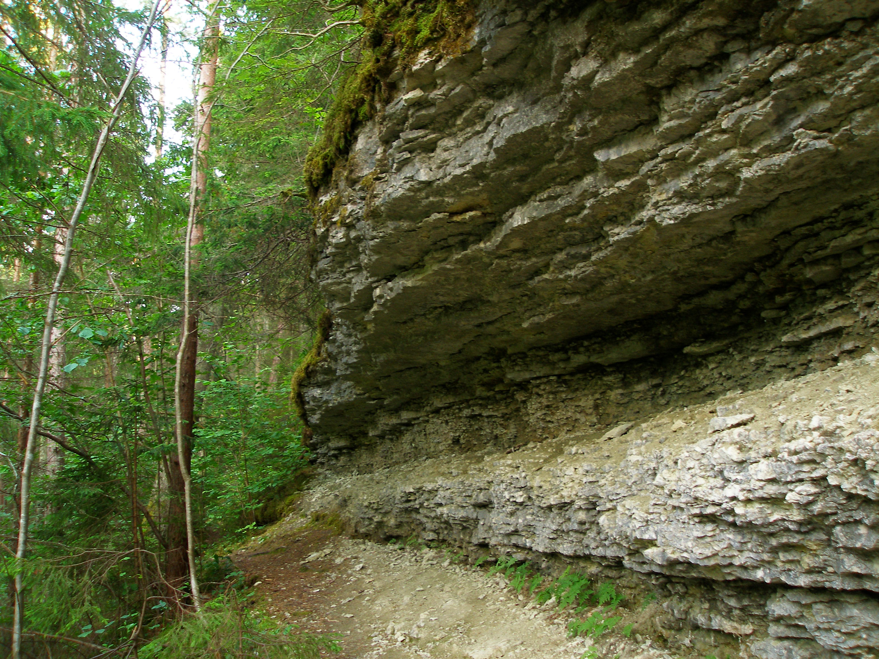 Limestone cliff in Vahtrepa, Hiiumaa, Estonia.